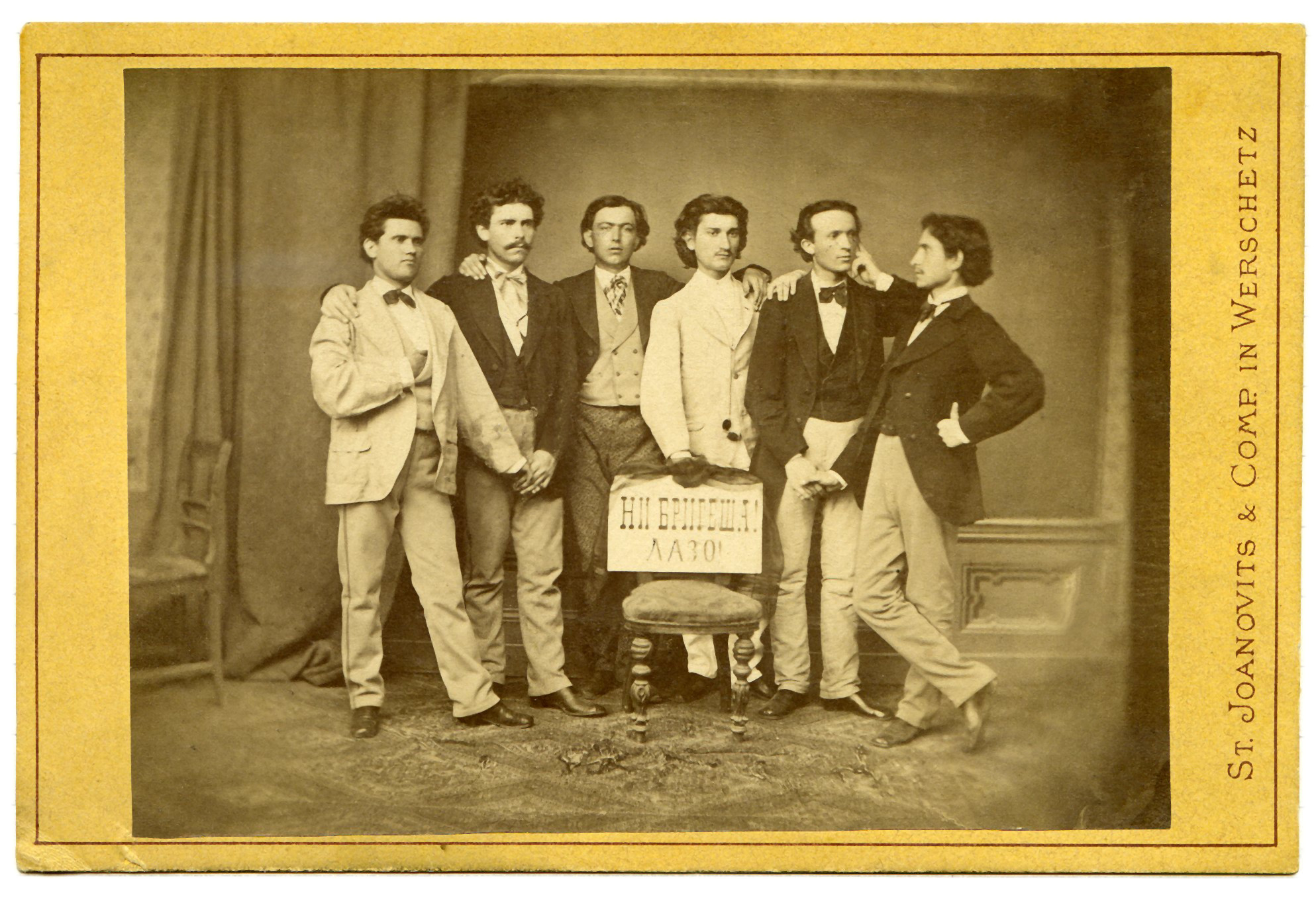 Part of the male ensemble of SNP from the play "Ni brigeša" K.A.Gernera (K.Trifković), 1872.